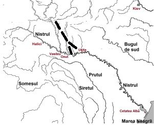 Map of Trajan wall in Bucovina according to A.V. Boldur